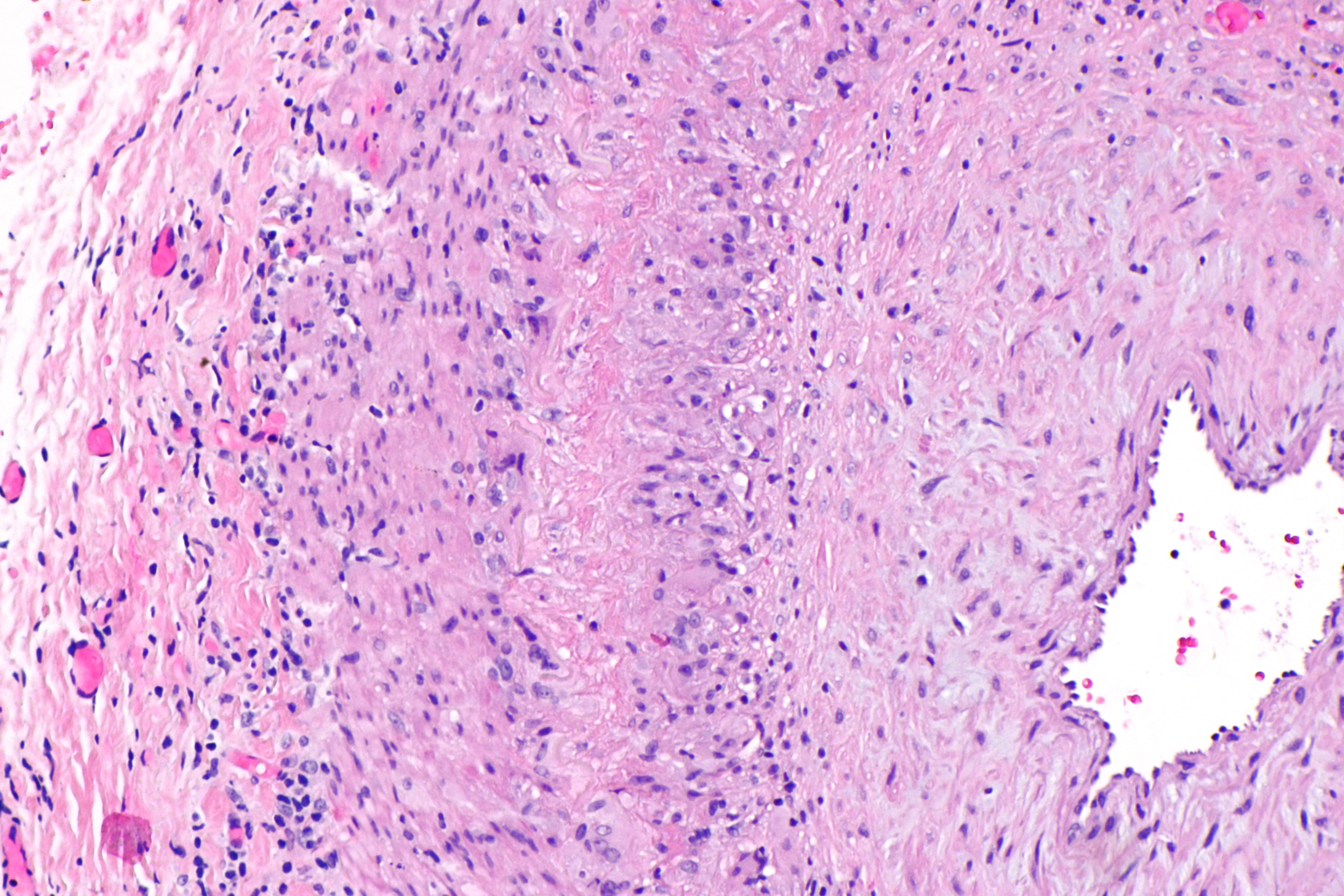 Micrograph of giant cell arteritis (also temporal arteritis). H&E stain. See also GCA - very low mag. GCA - low mag. GCA - intermed. mag. GCA - high mag. GCA - intermed mag. GCA - high mag.